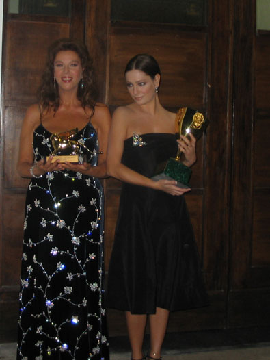 Stefania Sandrelli was awarded with a career achievement (Golden lion), Giovanna Mezzogiorno was awarded with "Coppa Volpi" as best actress